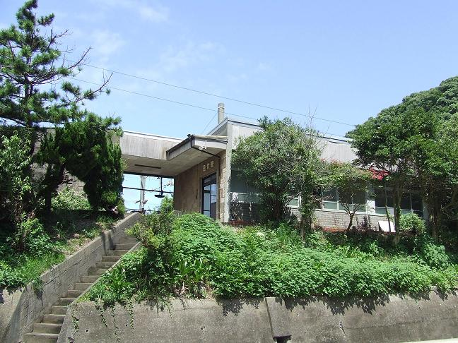 Hishiro Station on Nippo Main Line